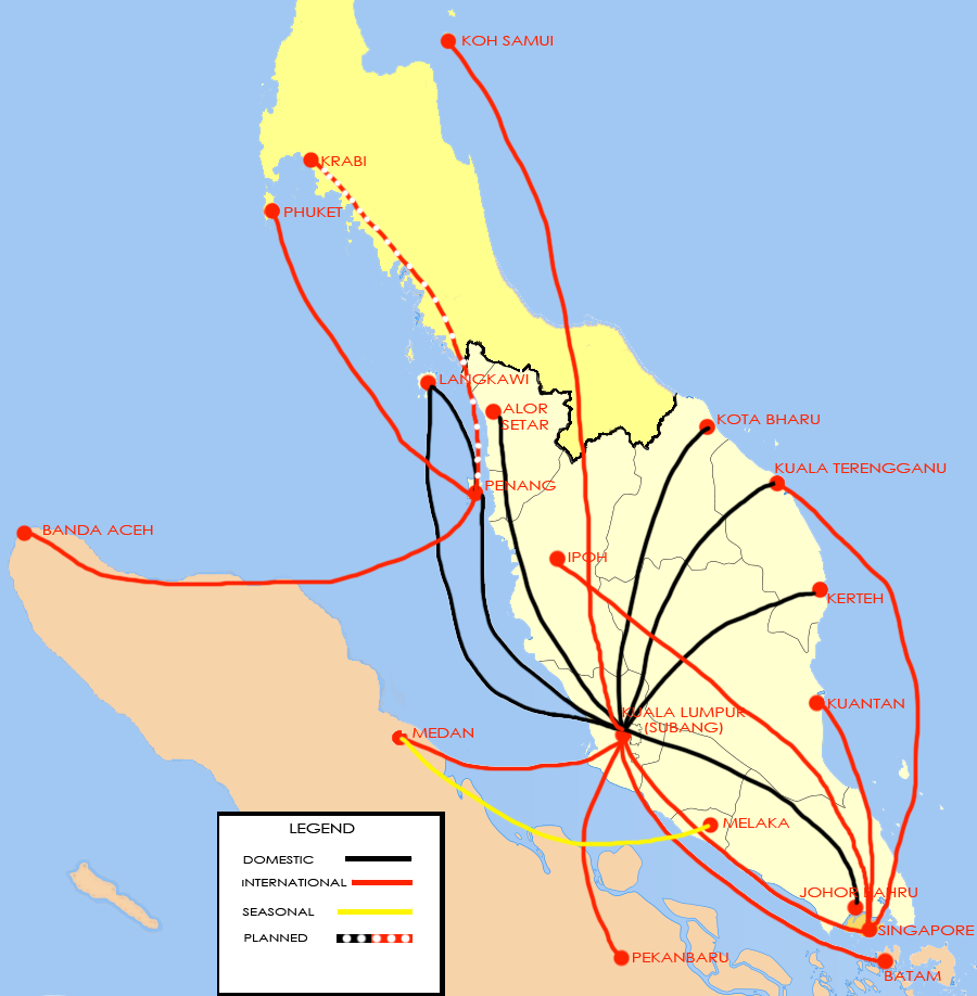 map of firefly routes as of july 2010 - routes data sourced from the firefly website